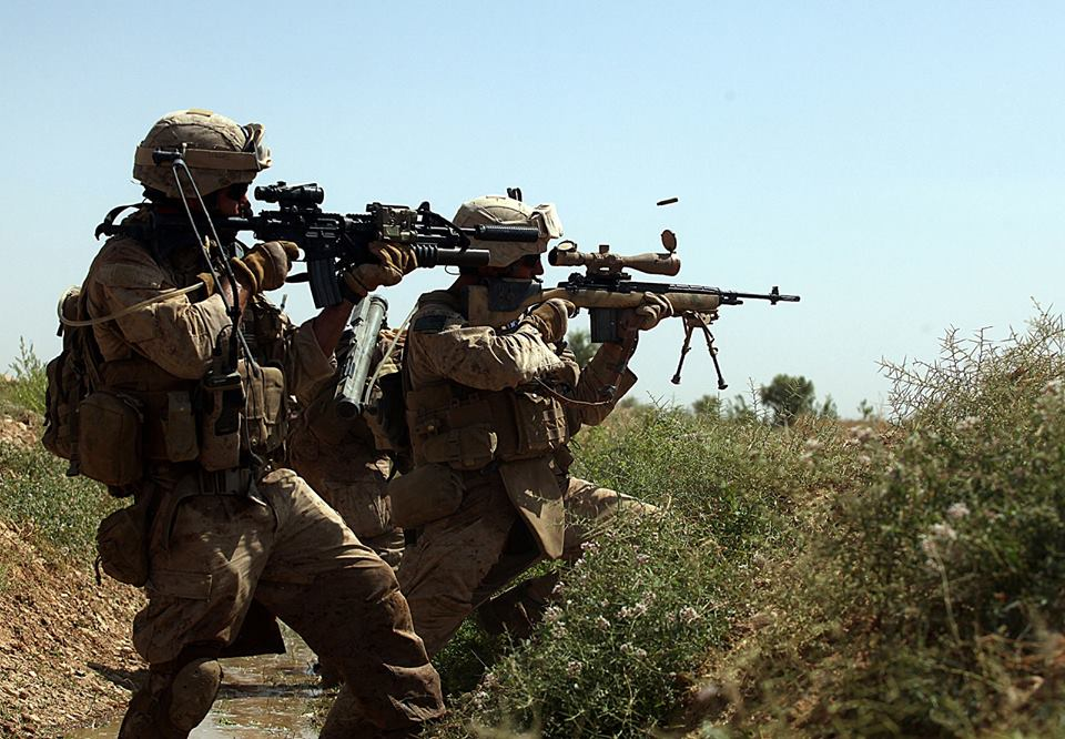 1st Recon Marines engage Taliban fighters.